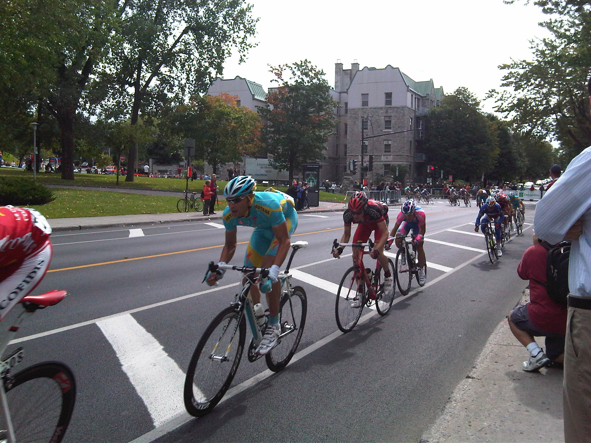 Grand Prix Cycliste de Montréal bicycle road race passing Boulevard Édouard-Montpetit.